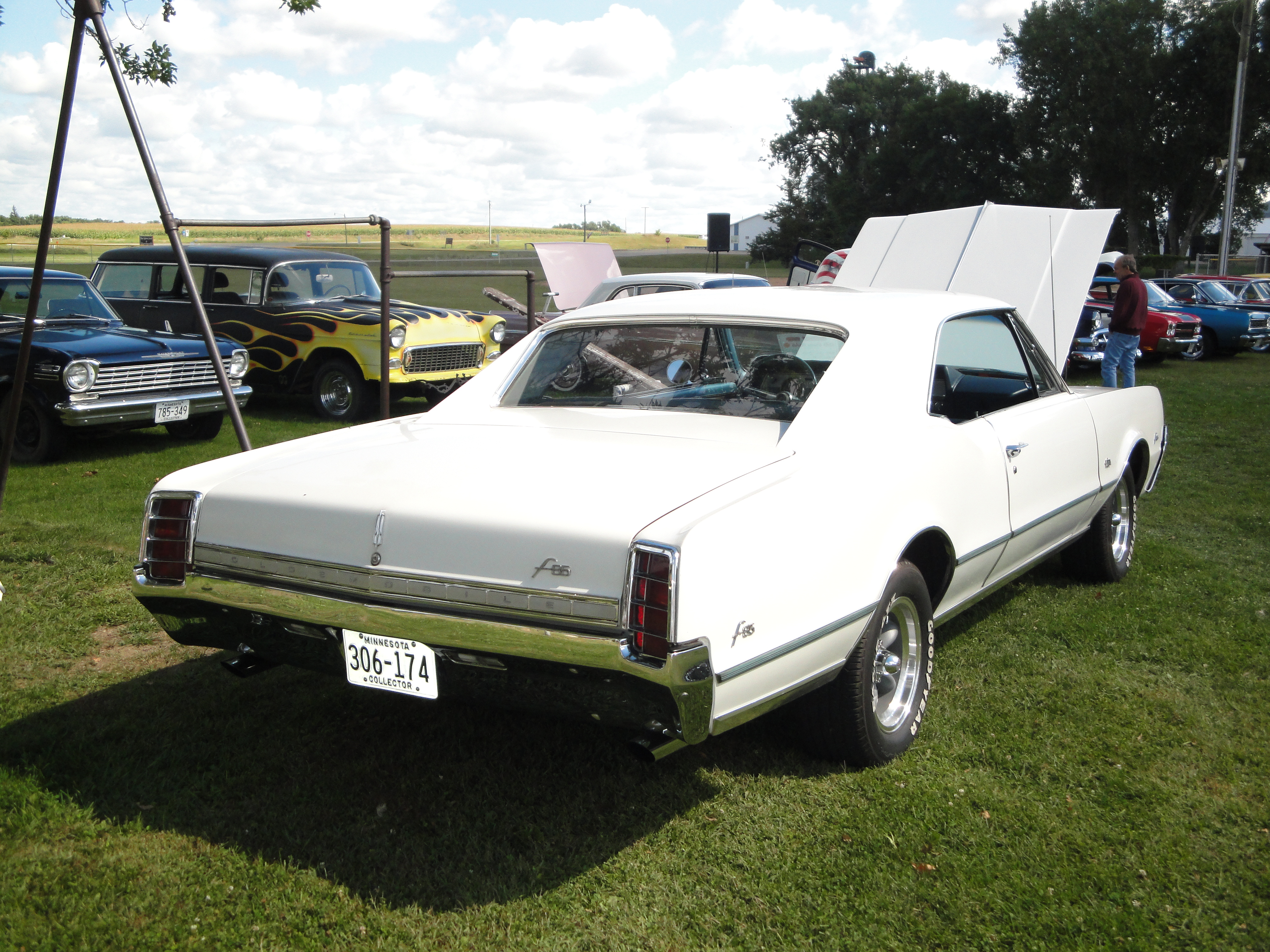 3rd Annual Trolls Car Show, September 5,2011. Sunburg Community Center